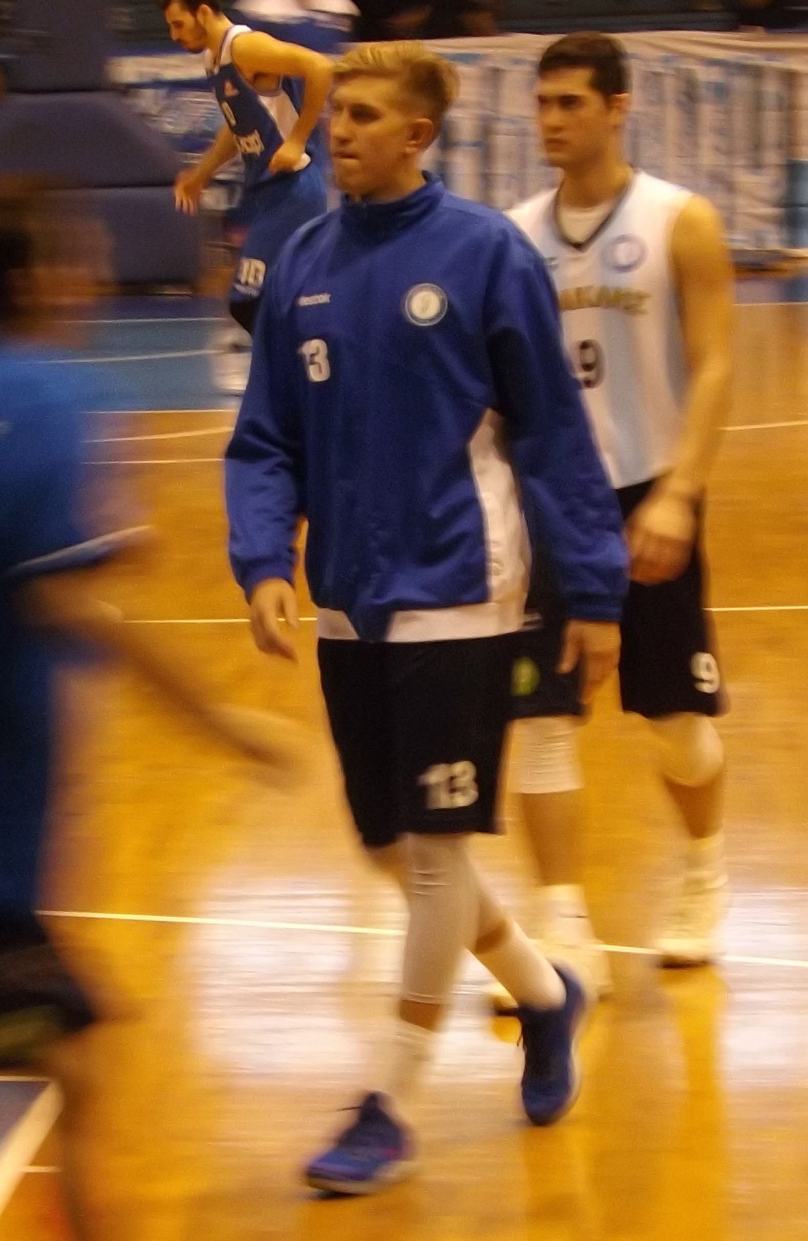 Ronaldas Rutkauskas playing for Iraklis Thesaloniki BC in 2016.